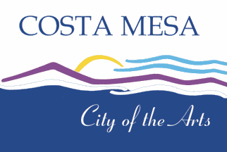 The official city flag of Costa Mesa, California.